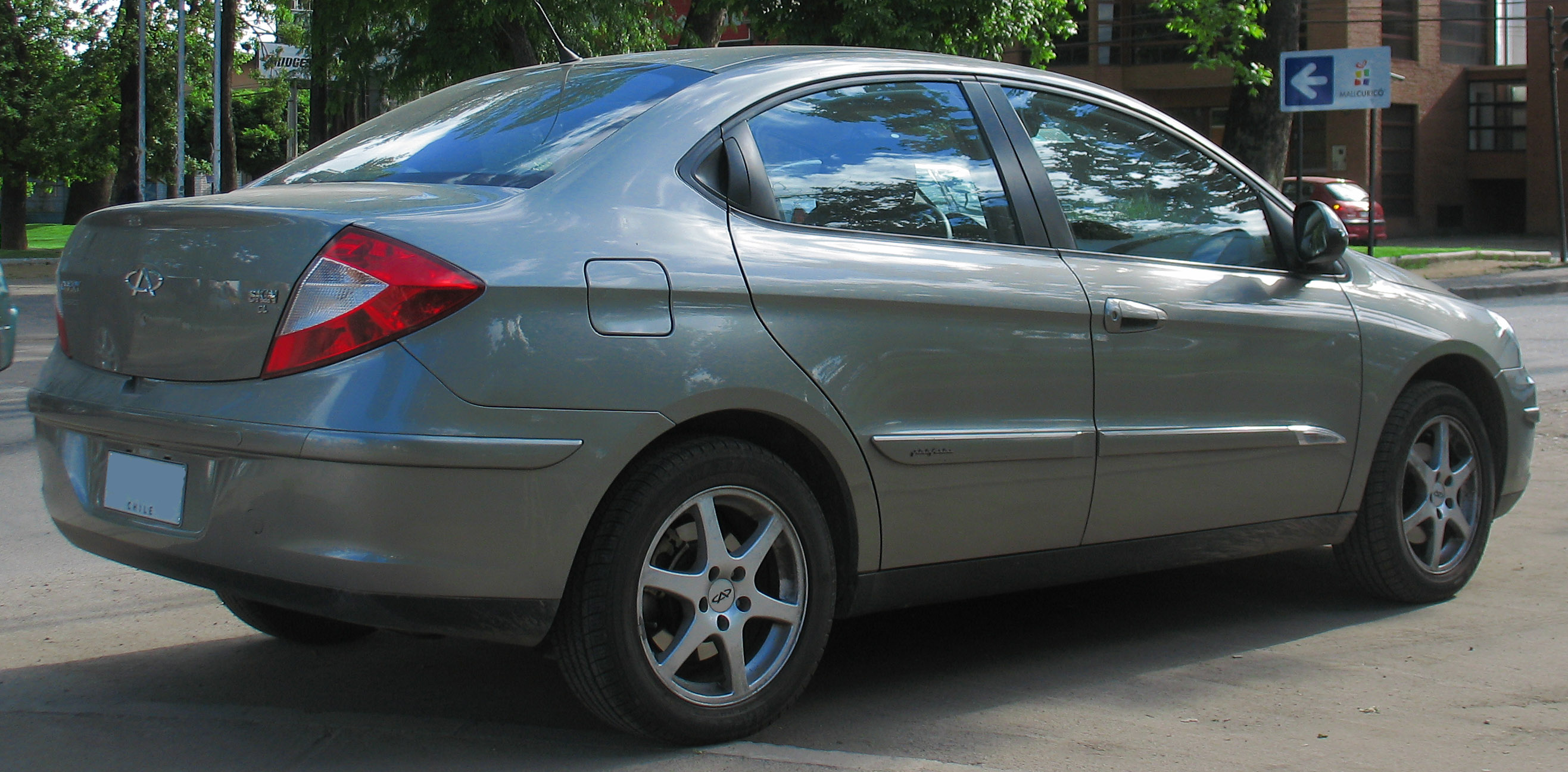 2011 Chery Skin 1.6 GL, photographed in Chile.